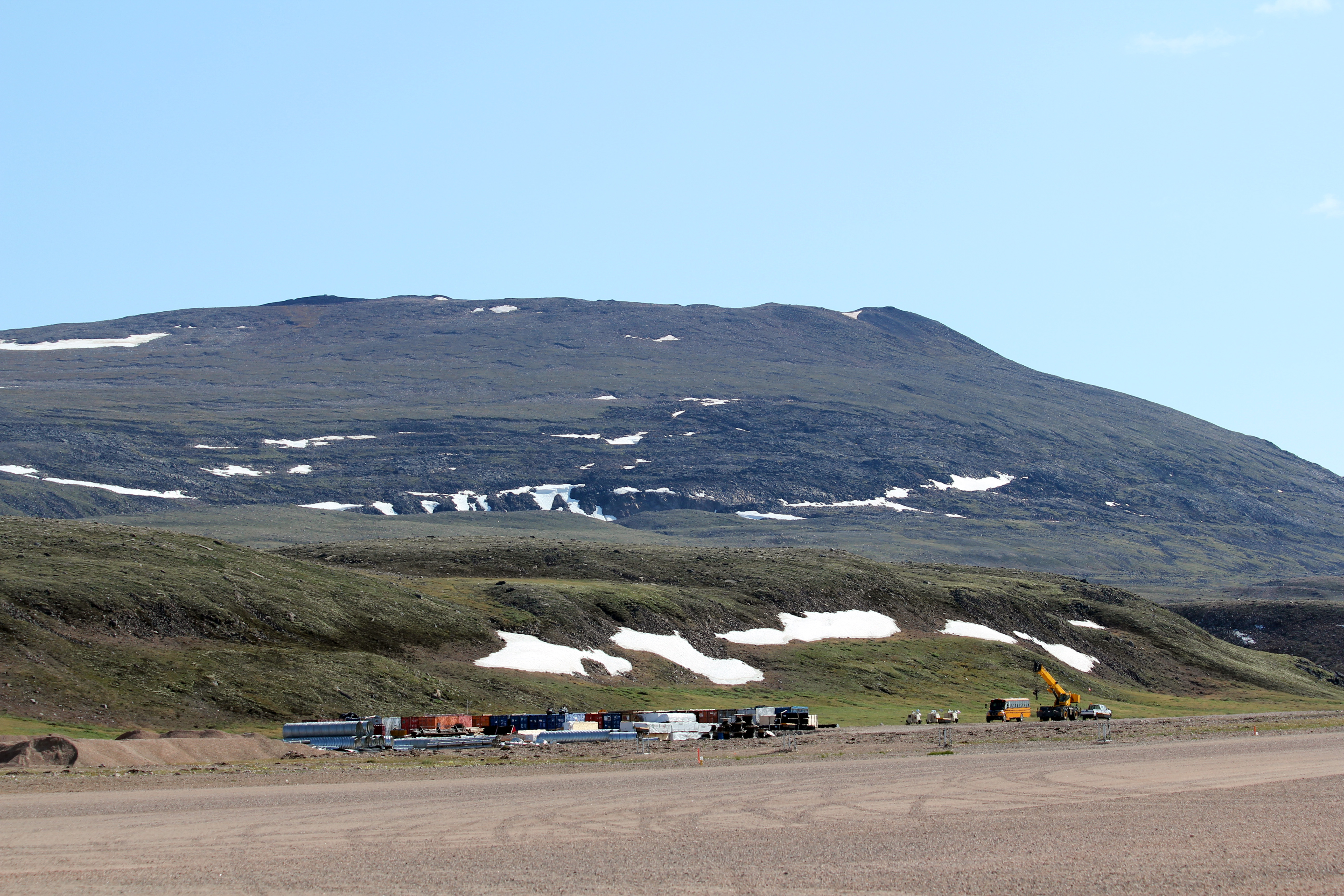 The iron ore mountain that will be leveled over the next 10-20 years